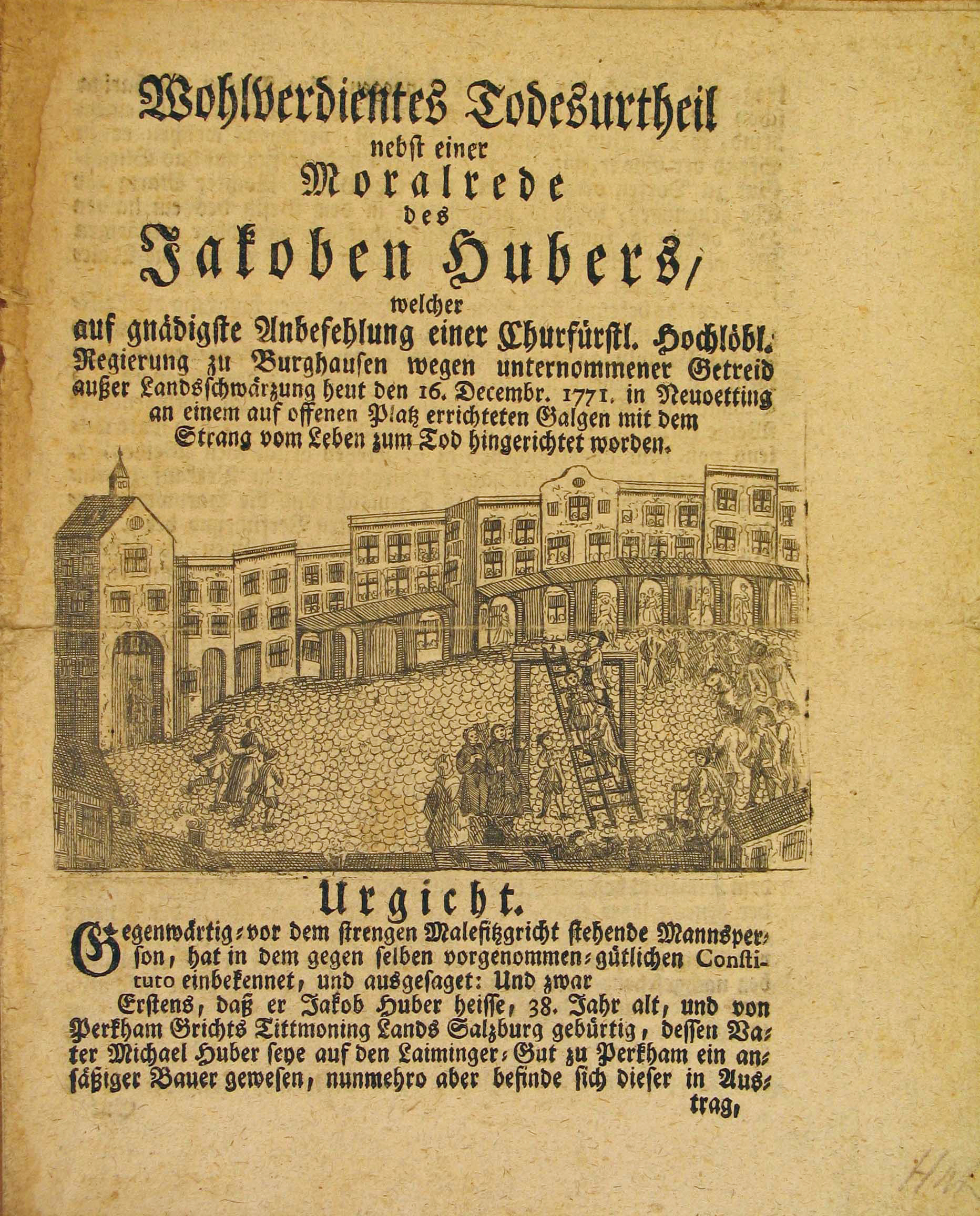 public execution of Jakob Huber, pamphlet in 1771